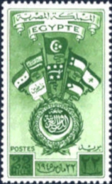 Arab League of states establishment - Egypt 22-3-1945 22Millim stamp